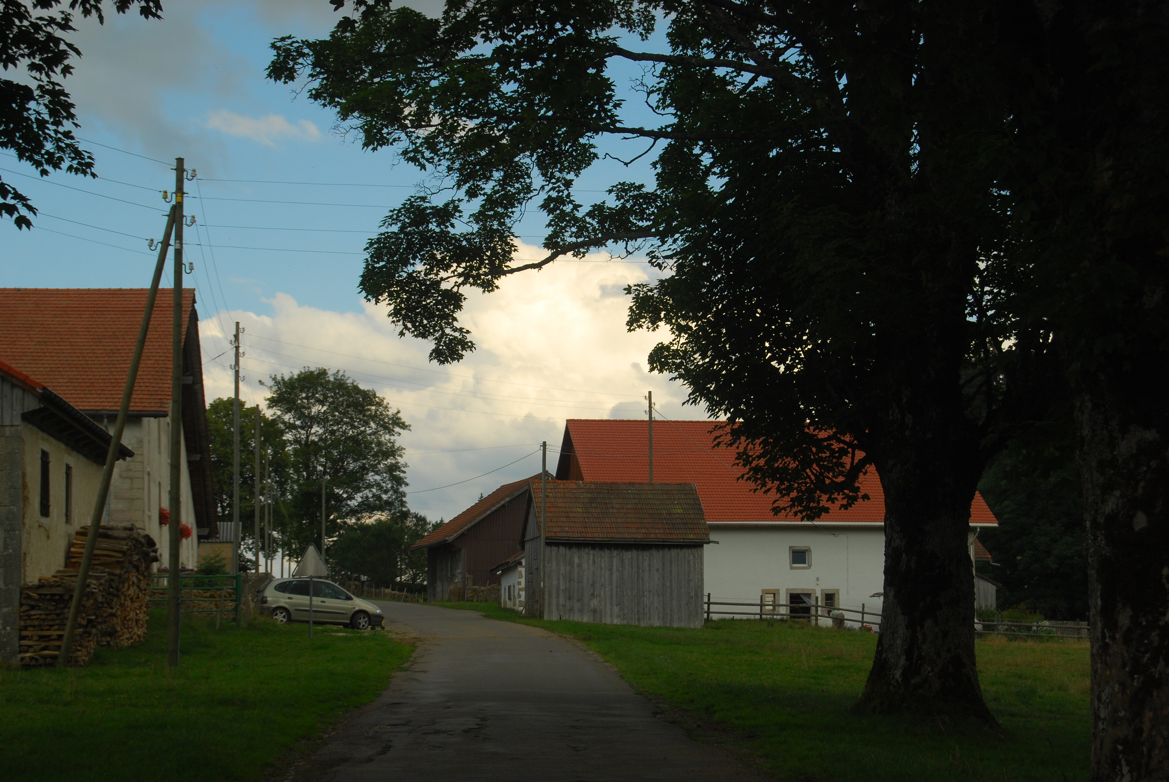 Les Rouges-Terrese, municipalité Le Bémont, canton of Jura, Switzerland